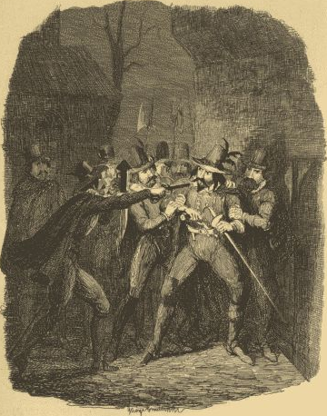 Guy Fawkes arrested by Sir Thomas Knevet and Topcliffe. Made by George Cruikshank (1792-1878).